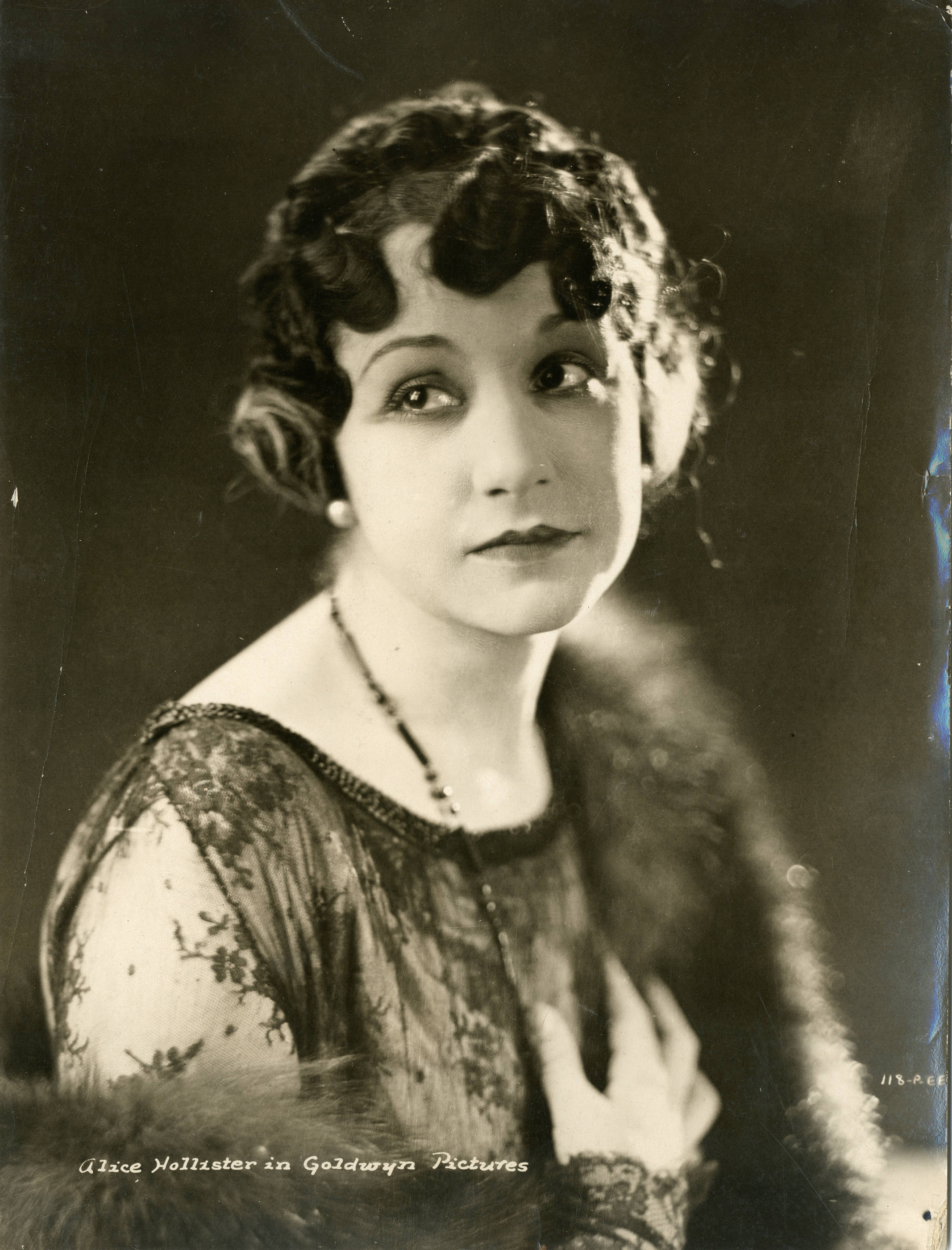 Silent film actress Alice Hollister. Subjects: actresses